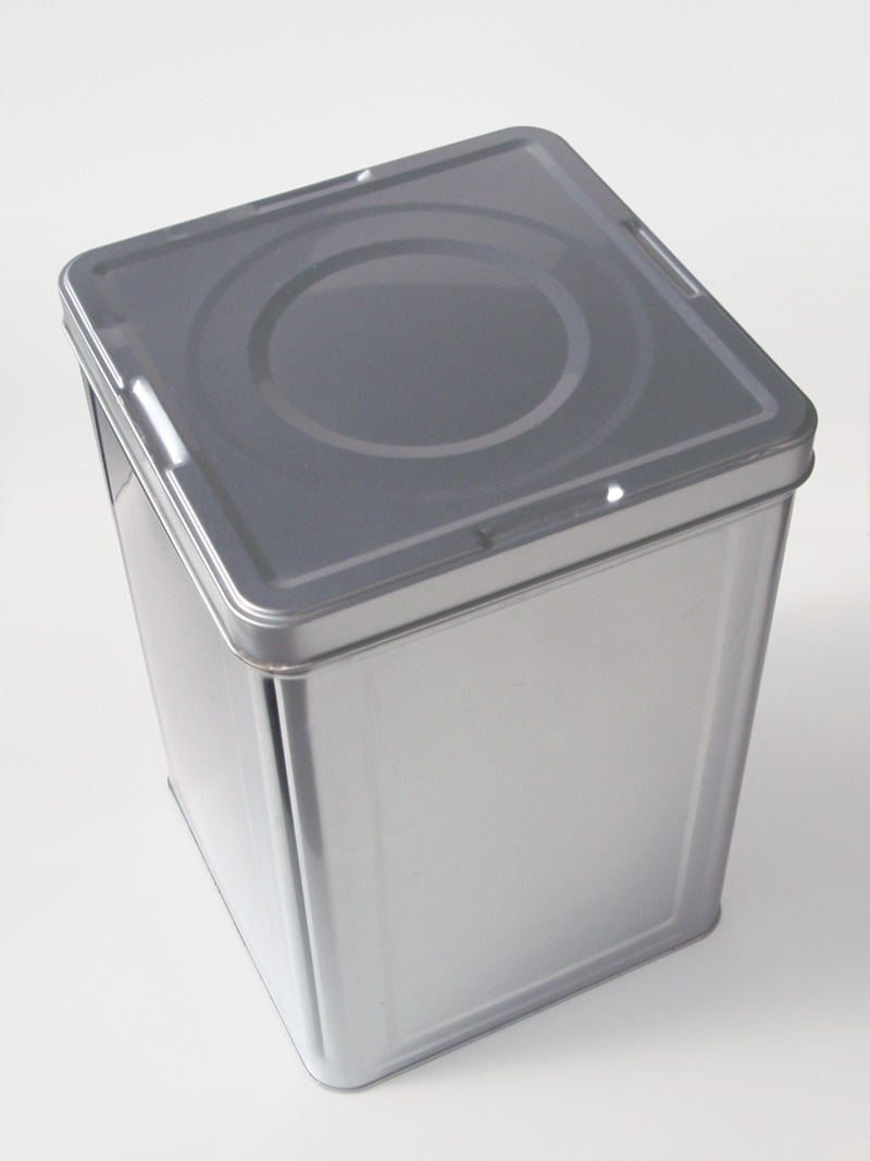 Itto-kan is a tin can, which using for the trade in Japanese business.